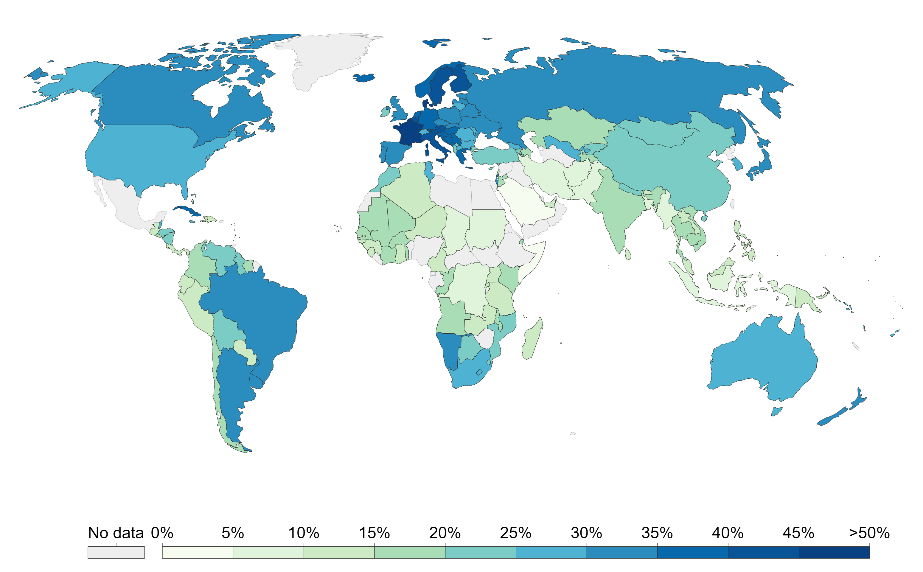 Total revenue from social contributions, direct and indirect taxes given as share of GDP in 2017.